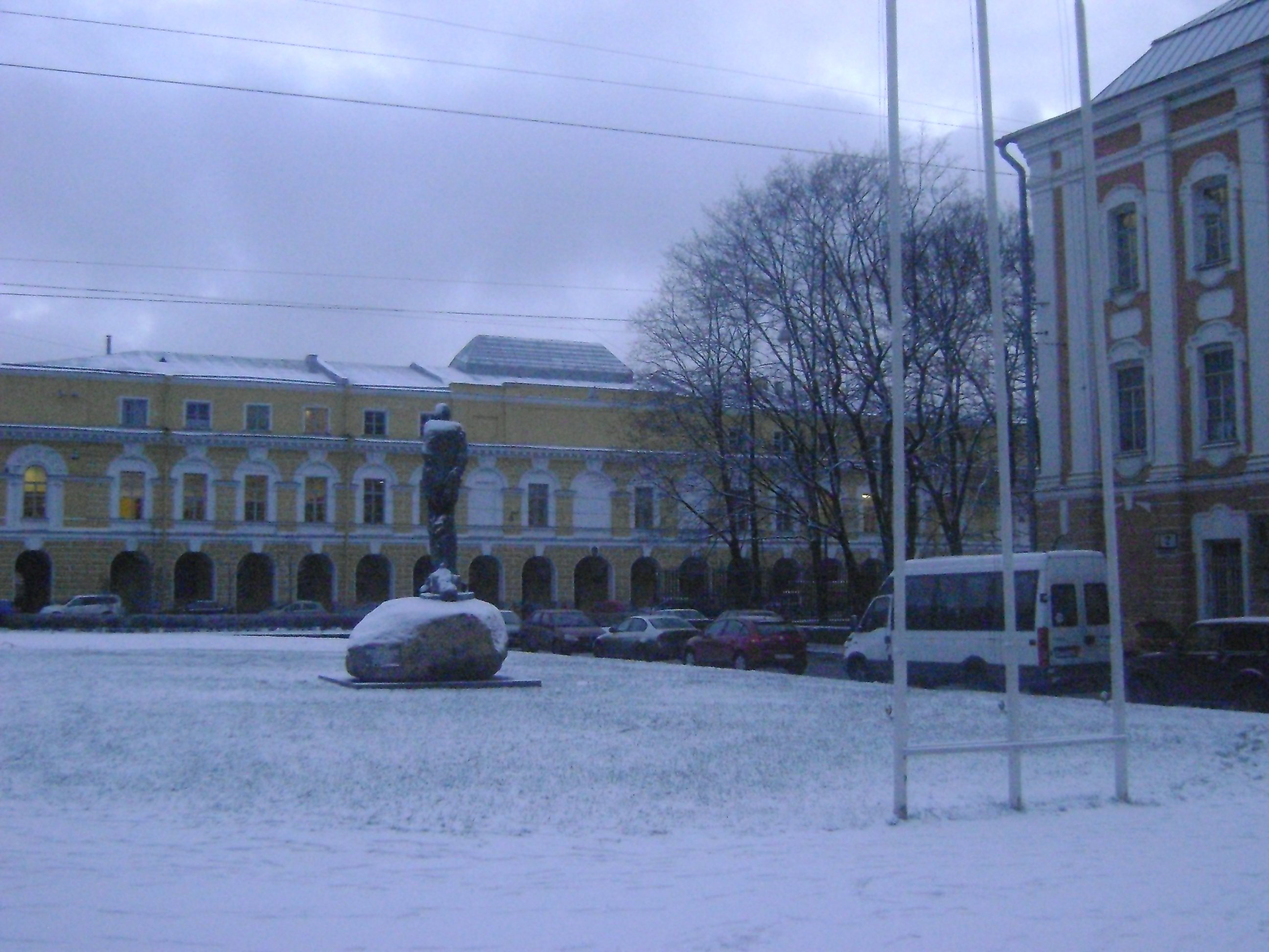 Faculty of history of St. Petersburg State University Mendeleev linia, No 5 and Andrei Sakharov Square